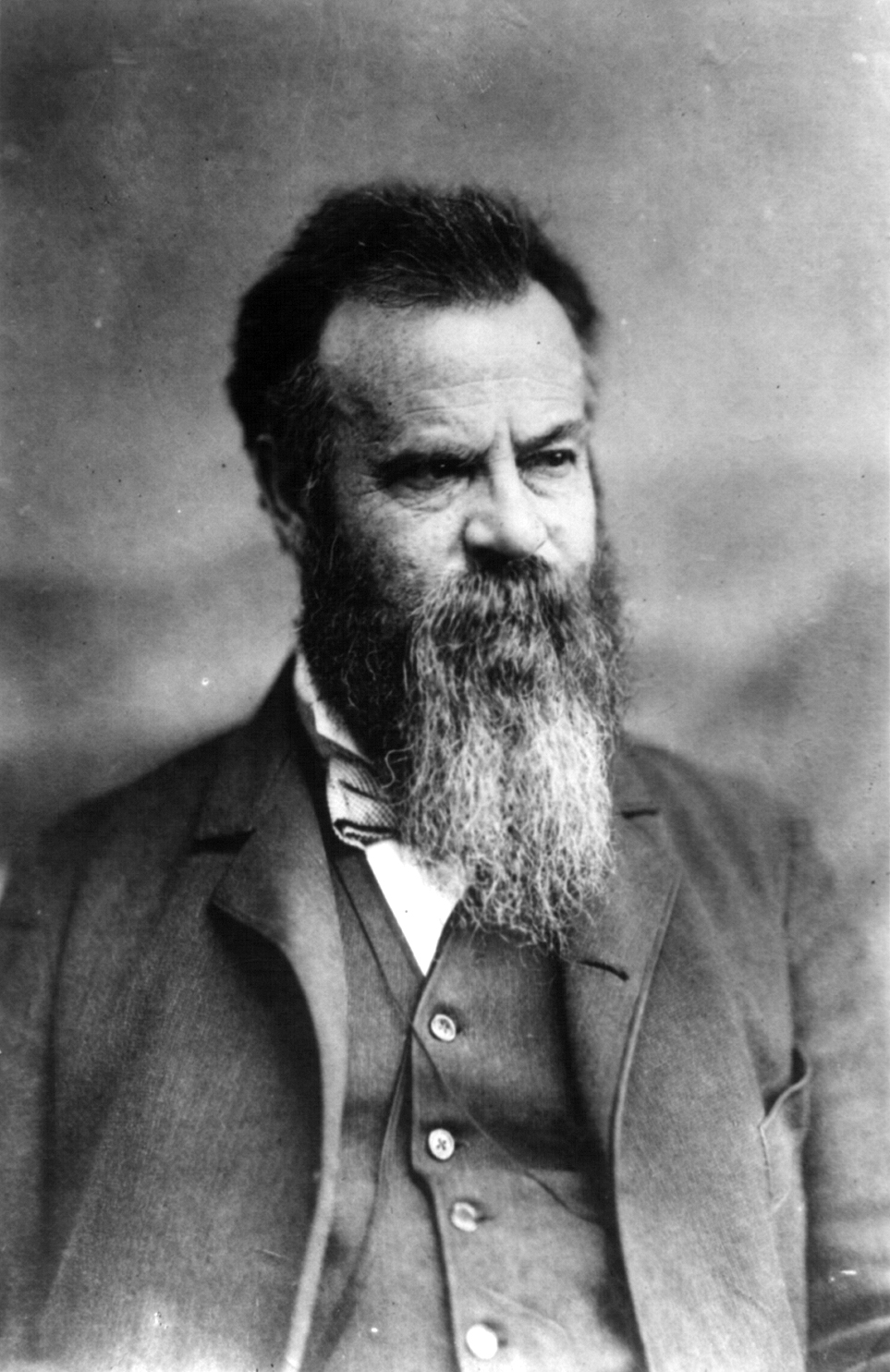 Image of John Wesley Powell, an American soldier, geologist and the second director of United States Geological Survey